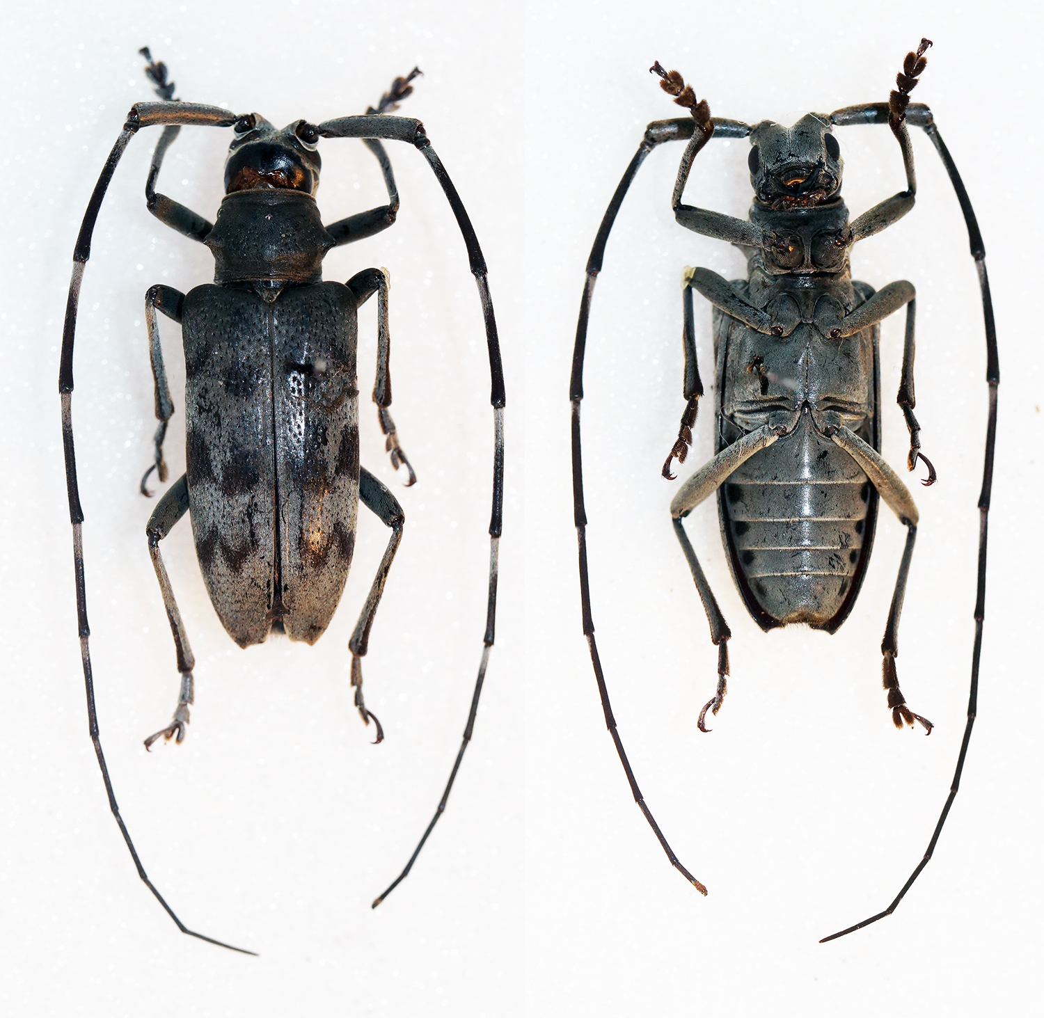 Cerambycidae